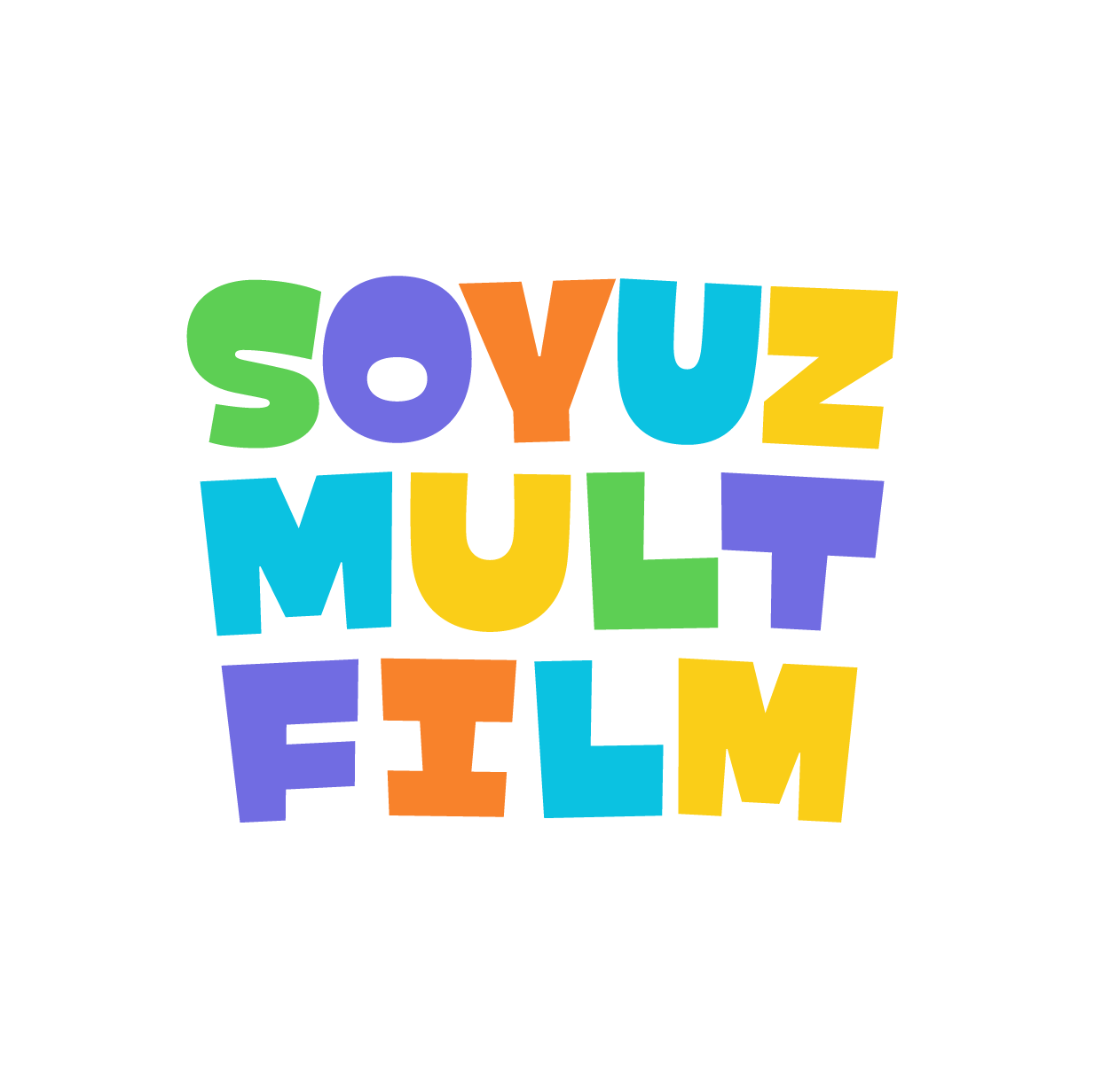 The logo represents Souzmultfilm Animation Studio